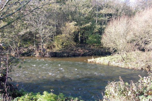 The Keekle meets the Ehen. Looking west at the meeting point of the rivers Ehen and Keekle. The Keekle is coloured a distinct red by the iron oxide picked up on its travels through the disused mines to the north.